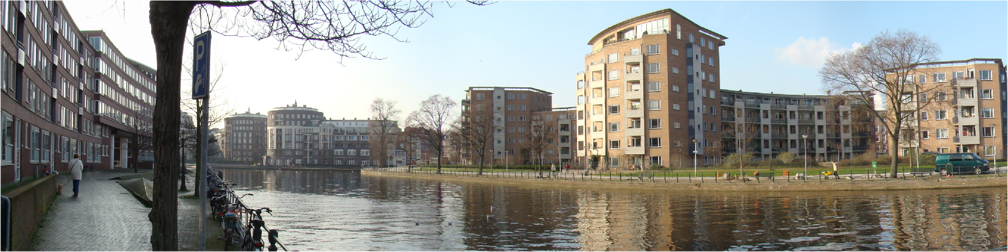 Kostverlorenvaart canal, between the Staatsliedenbuurt en Frederik Hendrikbuurt neighbourhoods in Amsterdam